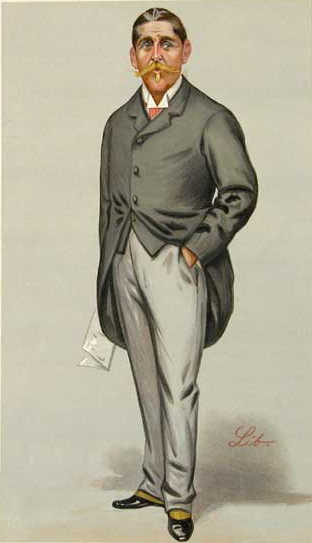 Caricature of Mr WC Quilter JP MP. Caption read "in Society and a Member of Parliament".